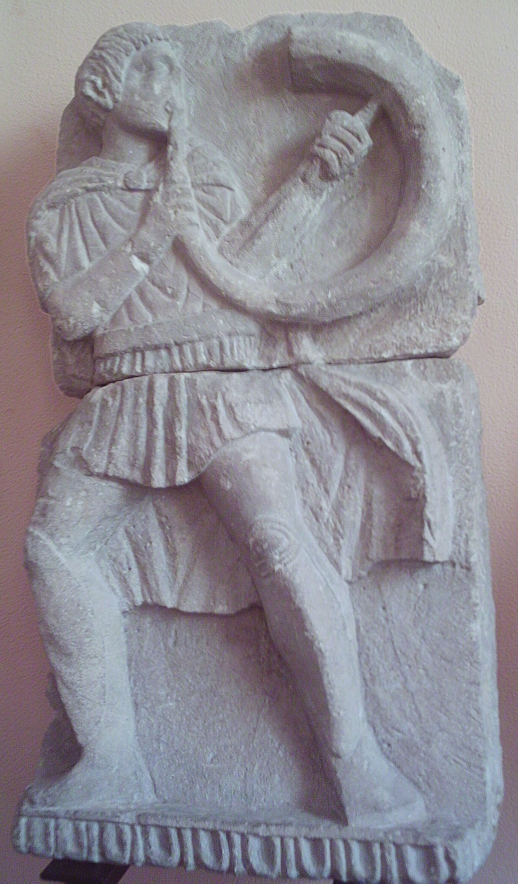 Warrior sounding a horn. Iberian artwork, part of the so-called Sculptures of Osuna.